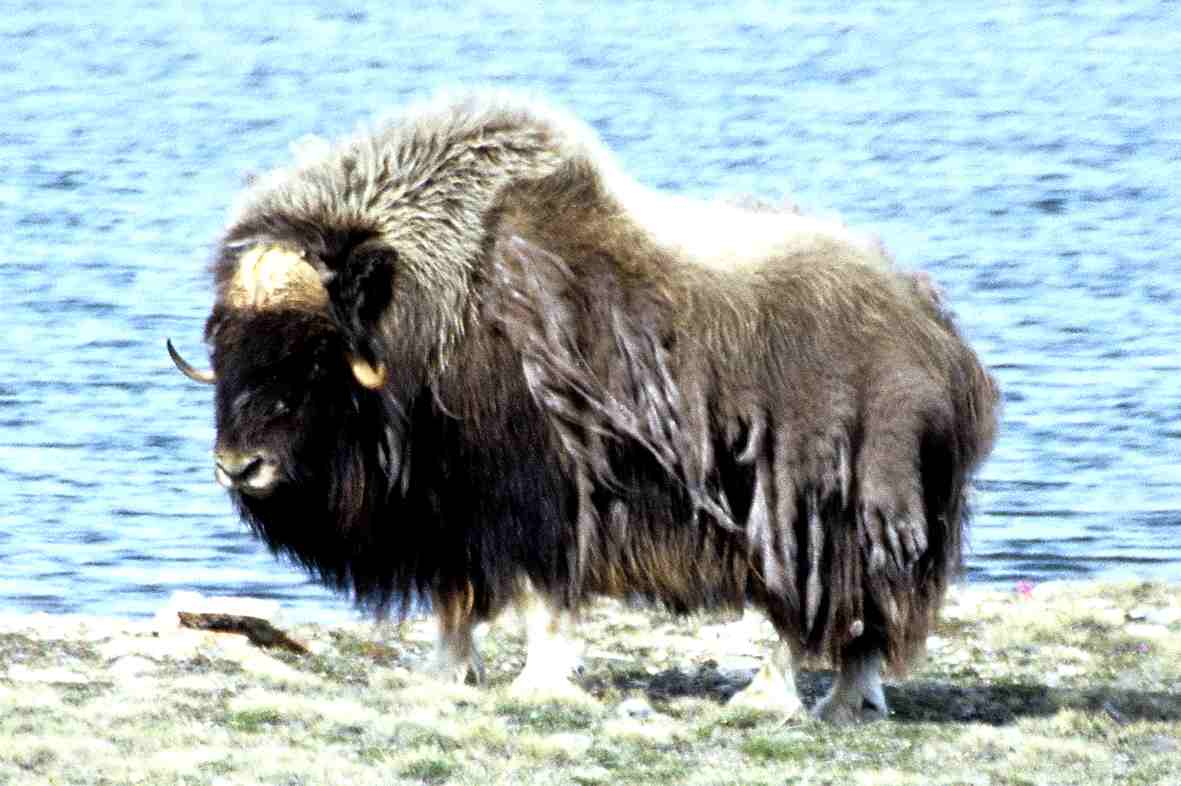 Muskox on Victoria Island, Nunavut Territory, Canada